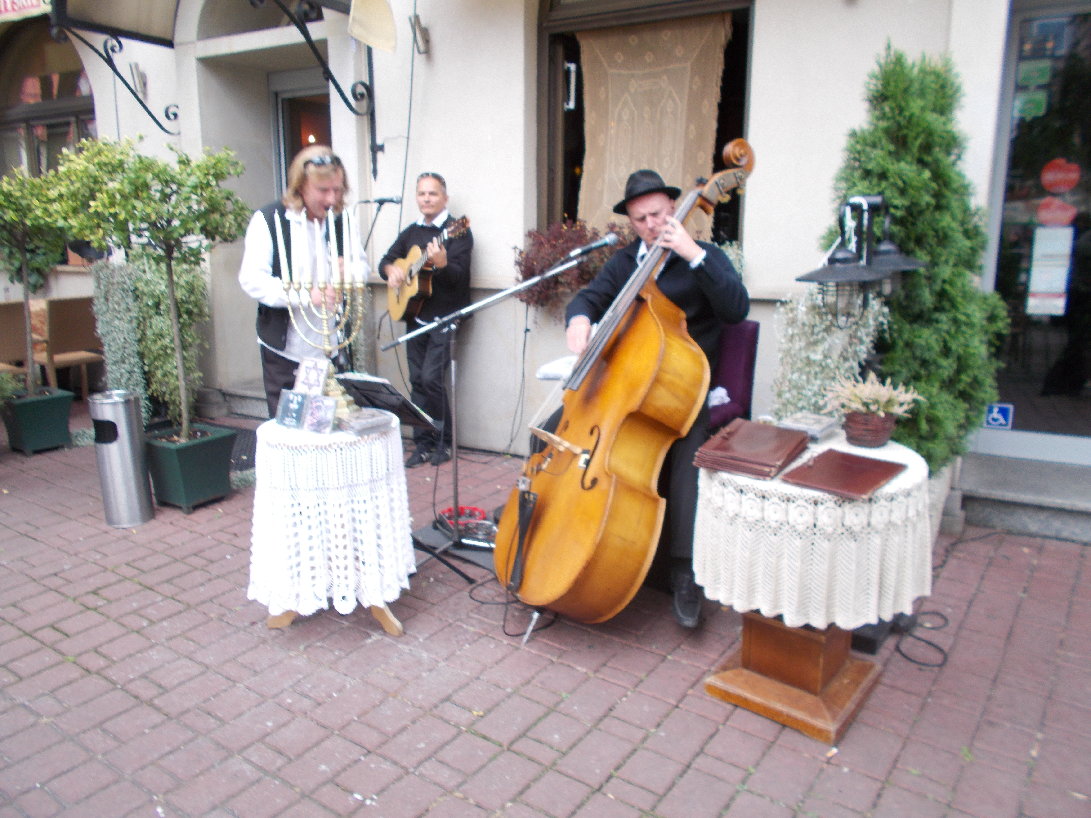 Yiddish Music at Ester Krakow cafe in Kazimierz."Jewish Quarter" of Old Krakow.